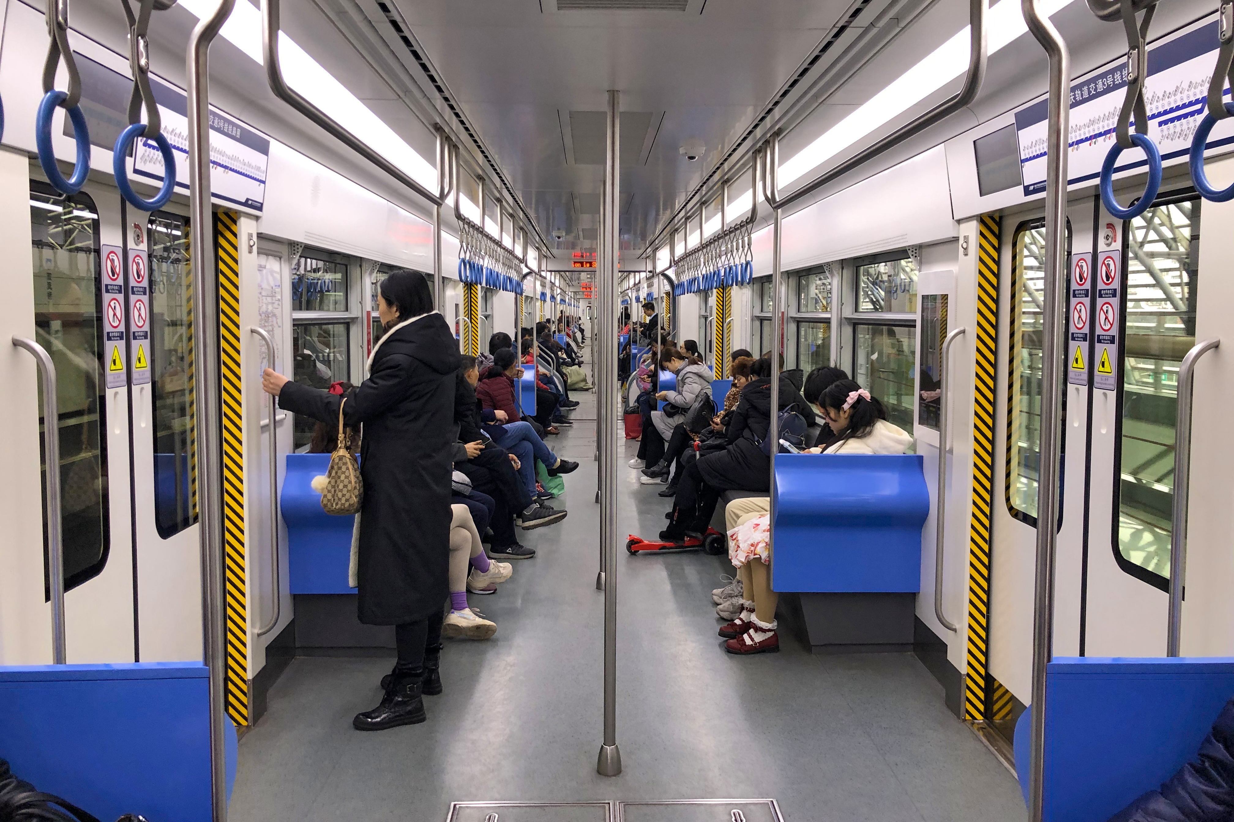 Running Konggang branch (to Bijin only).